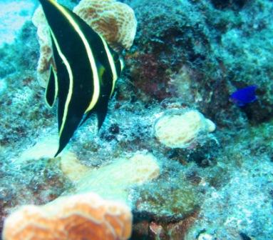 French angelfish, Pomacanthus paru, juvenil